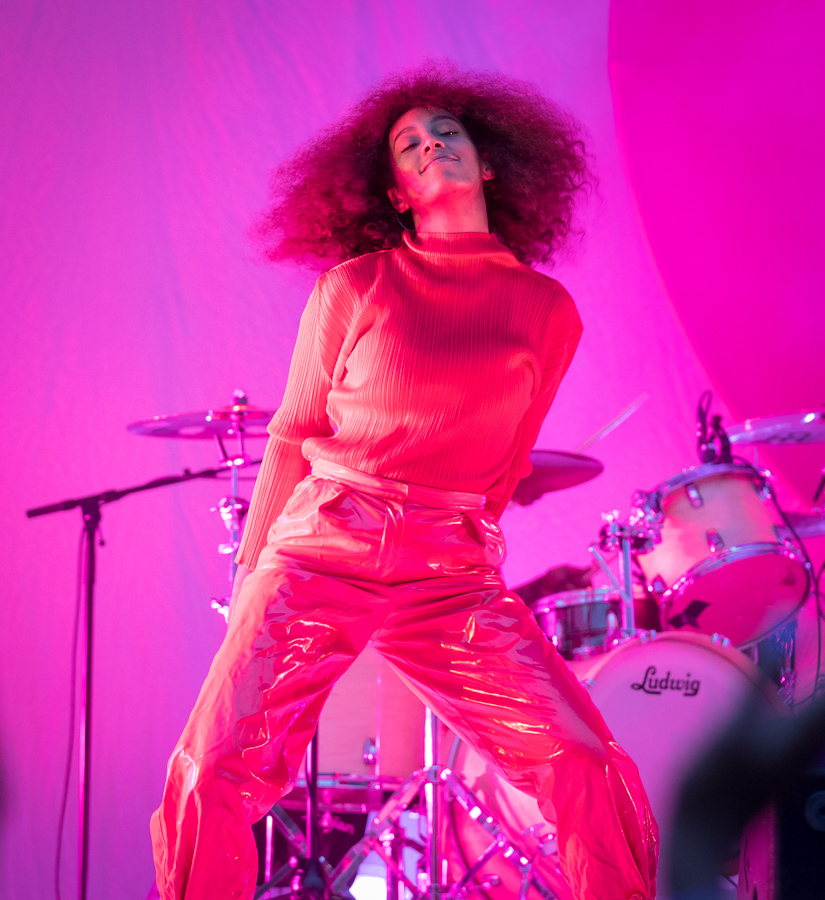 Solange at the main stage in the Vigeland Park. The concert was part of Piknik i Parken and took place on 23. June 2017 in Oslo. Lineup: Solange Knowles (vocal).